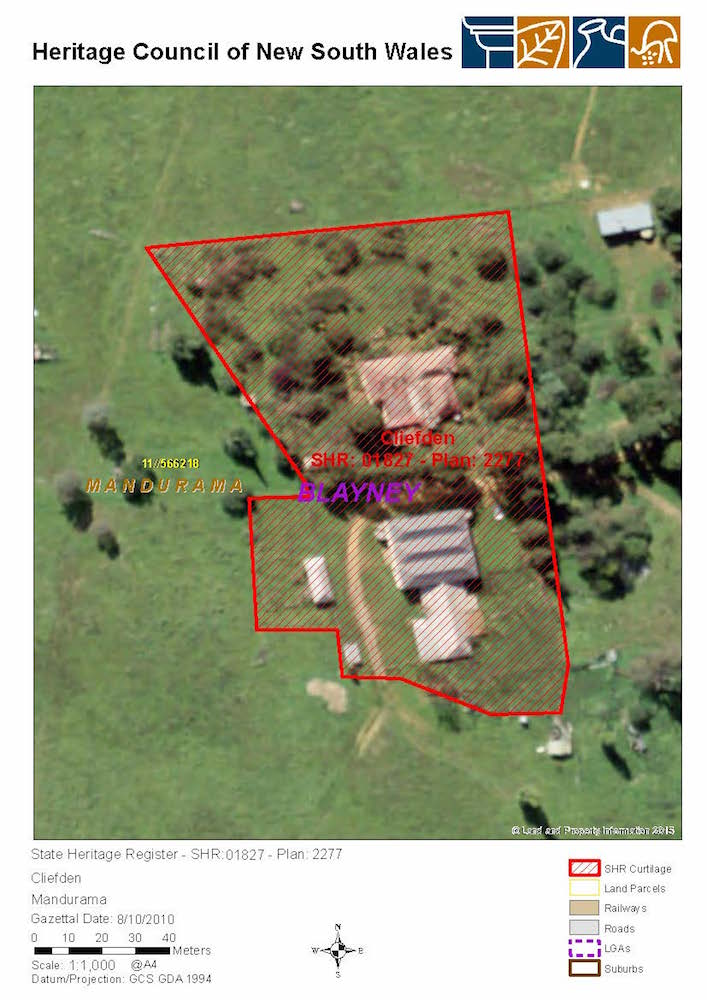 Cliefden, Mandurama: SHR Plan 2277